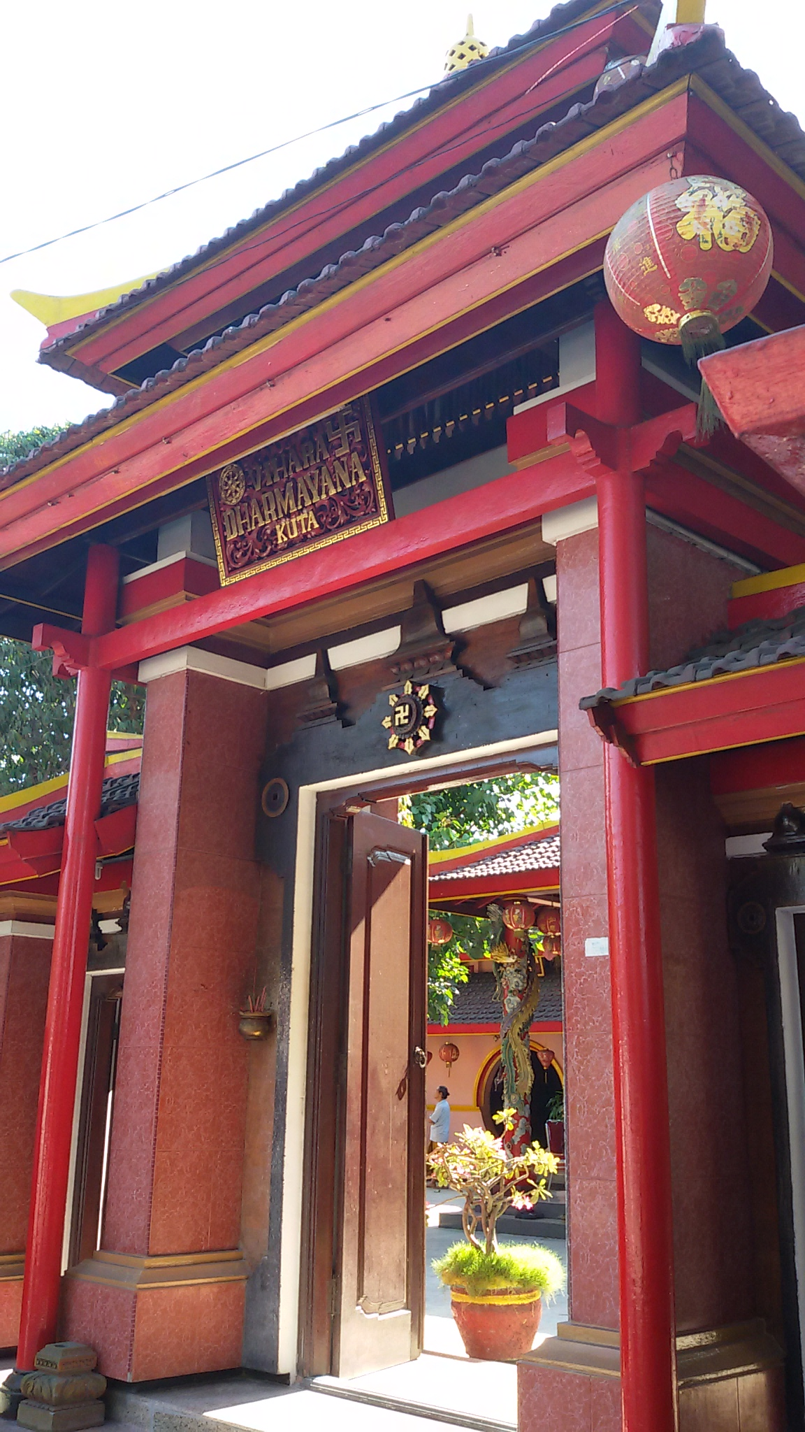 The main gate of Vihara Dharmayana Kuta, Bali